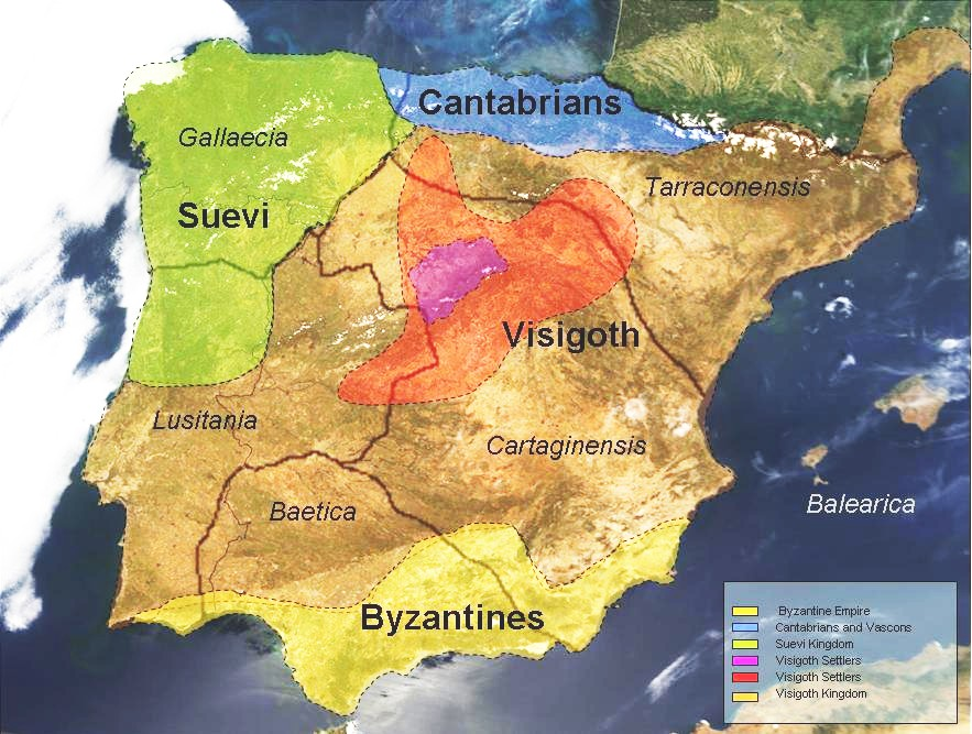 Iberian Peninsula around 560 AD. Original image Hispania3.JPG by J.A.Freyre, from Wikipedia, stated to be a U S Government work free from copyrights. Released into the public domain.